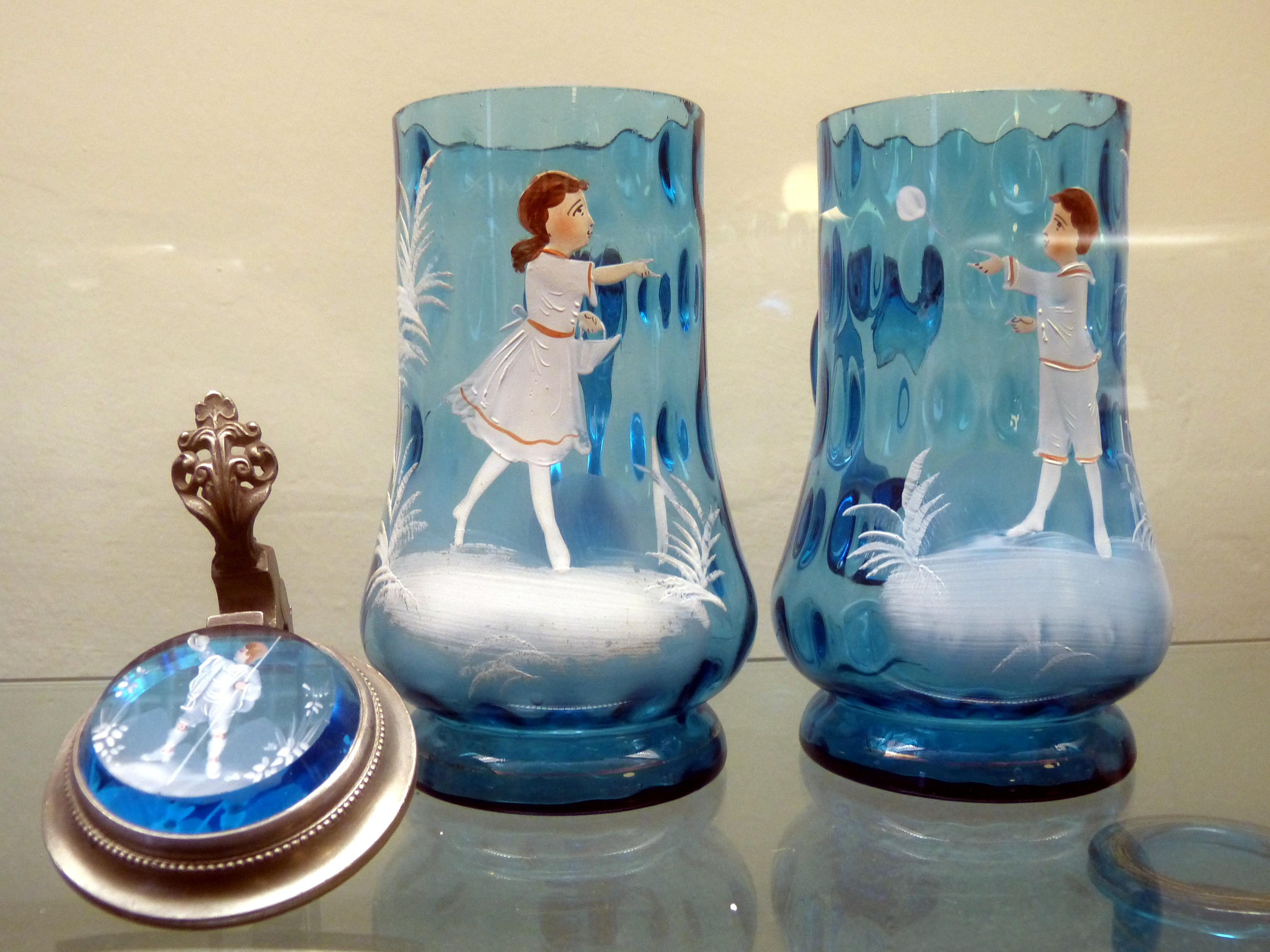 Ulrichsberg ( Upper Austria ). Heimathaus - glass collection: Glas vessels painted in "Snow painting" from Northern Bohemia.